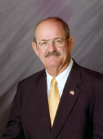 Former Florida State Representative, Dwight Stansel, who served Florida House District 11 from 1998-2006.